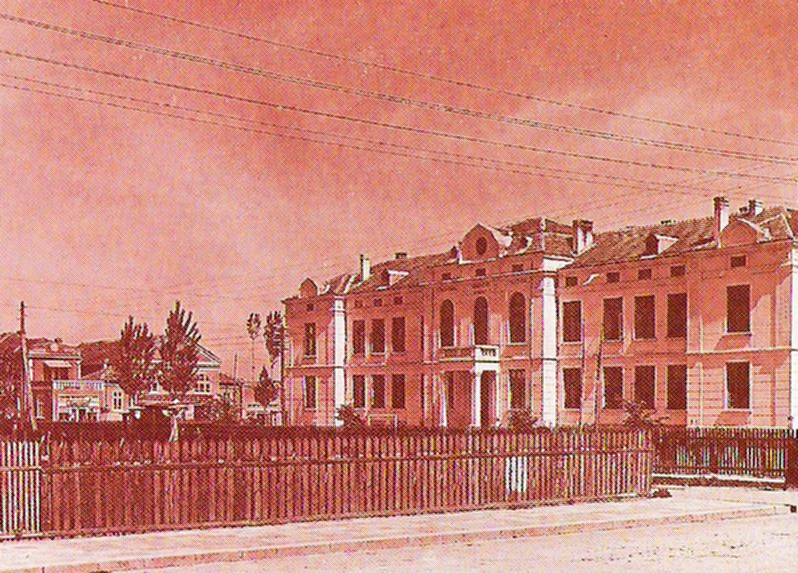 Hristo Botev School, Targovishte